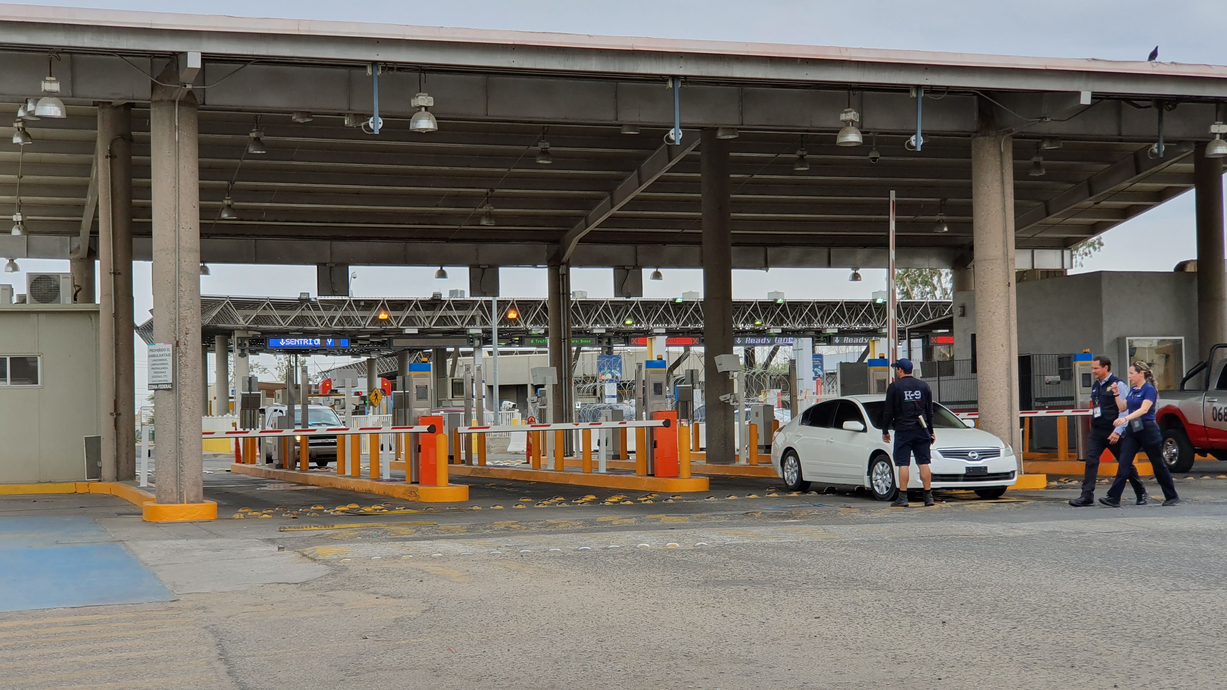 Garita/Aduana Internacional entre Arizona y México en San Luis Río Colorado, Sonora.